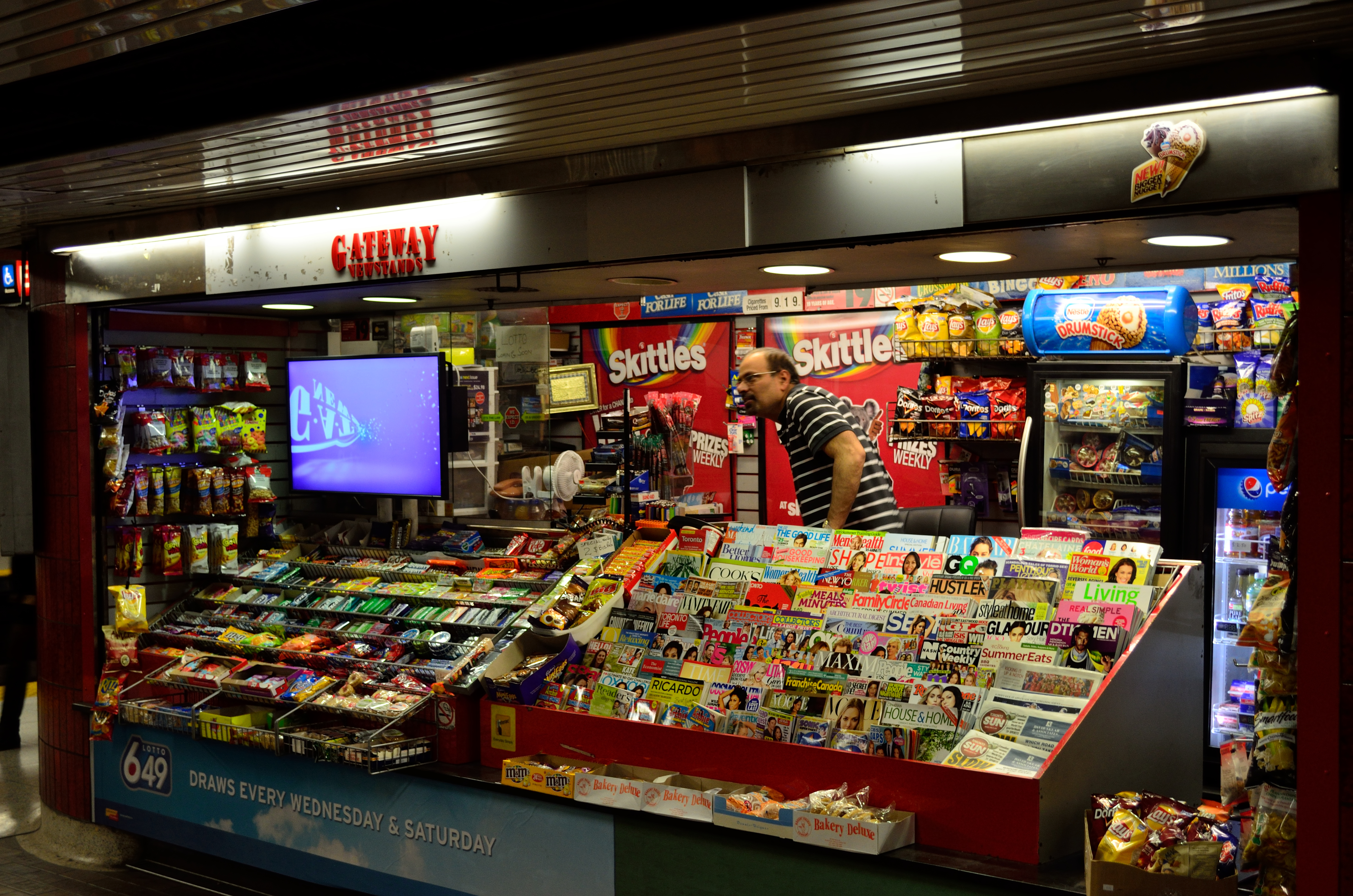 Gateway Newstands at Queen TTC Station.